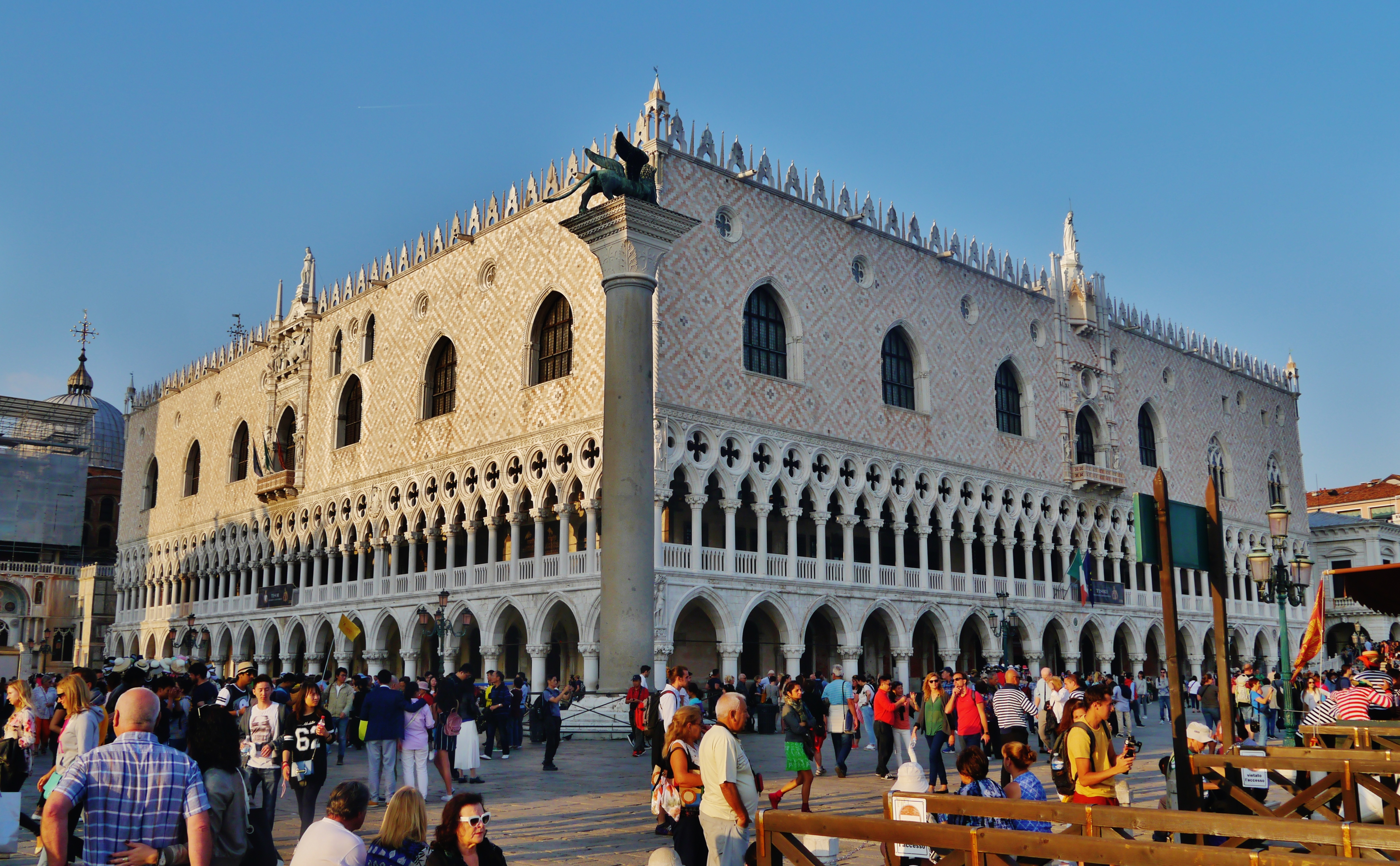 Ducal Palace, Venice, Metropolitan City of Venice, Region of Veneto, Italy